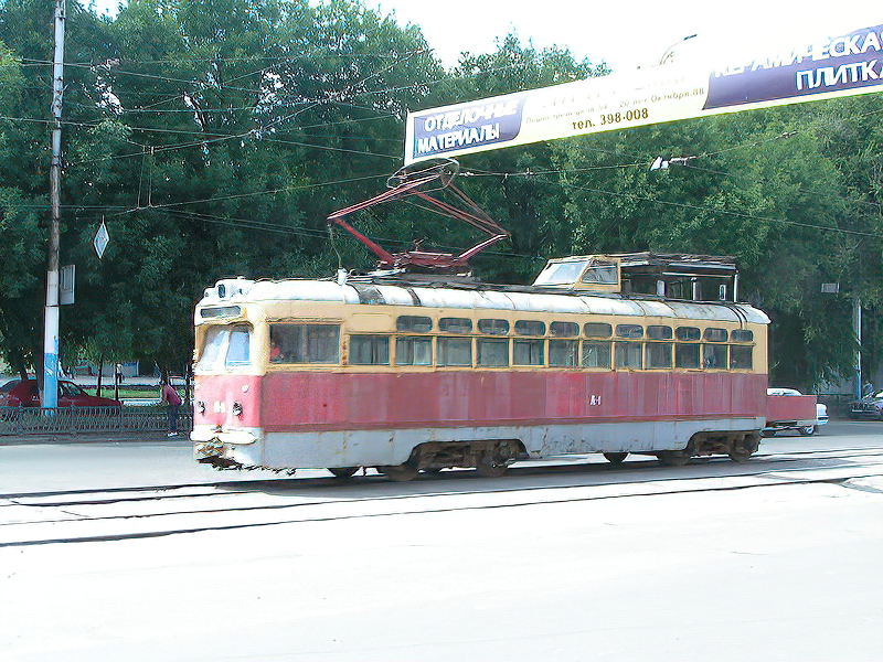 MTV-82 tramcar converted into garret for overheadlines maintainance. Voronezh, 2006